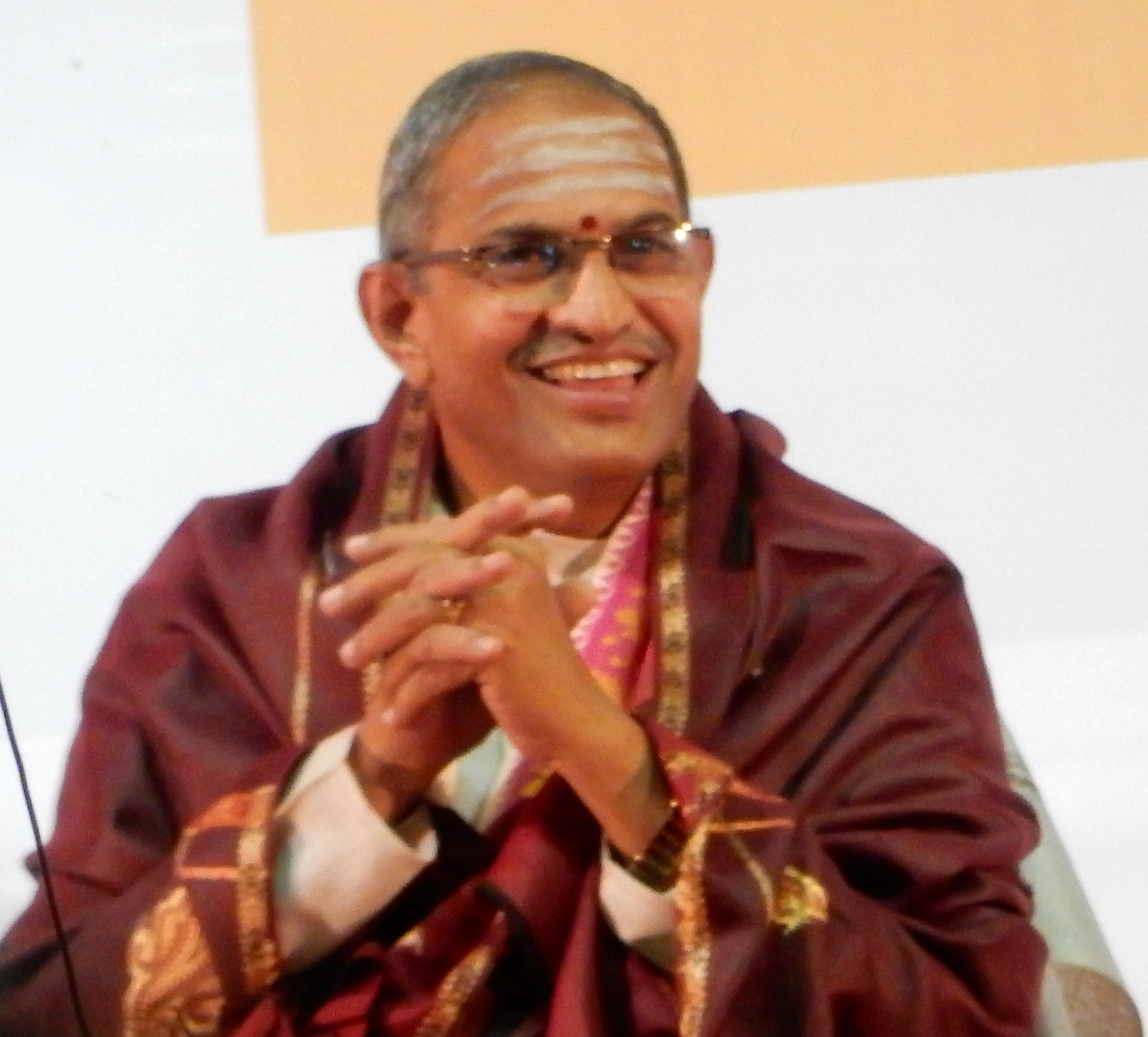 Chaganti Koteswara Rao in August 2015. He is an Indian spiritualist.